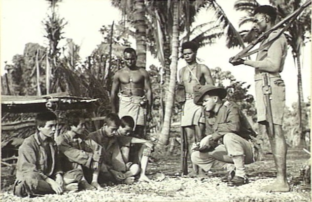 Papuan Infantry Battalion troops and their Australian officer interogate Japanese prisoners at Singorkai, March 1944